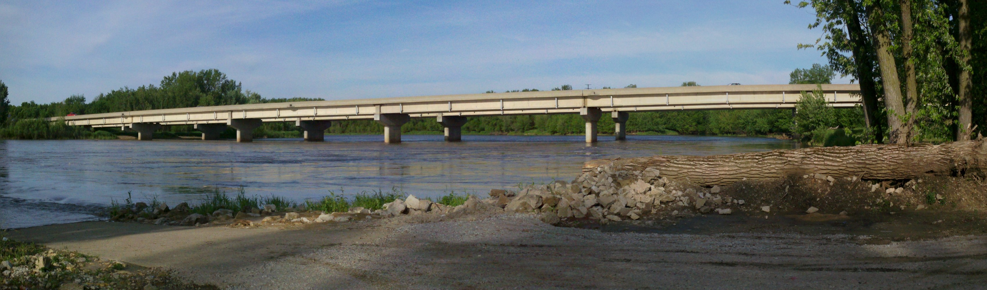 Panoramic view of the Des Moines River crossing of U.S. Route 65. This image was created with Hugin